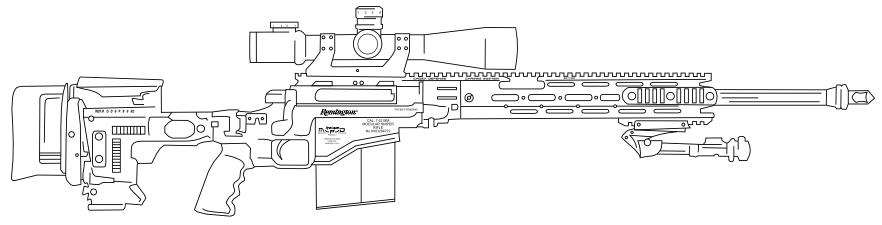 An image of the MSR sniper rifle realized by me with Inkscape